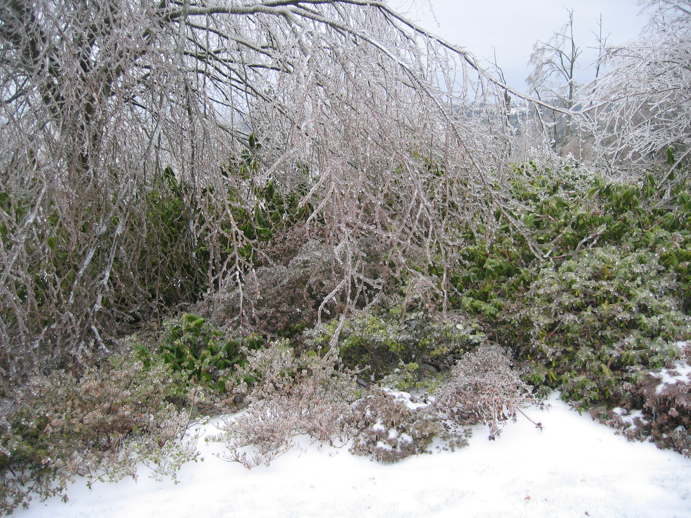 Photo of ice encased trees and bushes in December in Washington, USA.